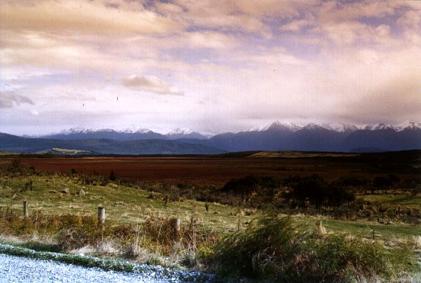 A view of the Kepler Mire String Bog from the Mt York Road Southland New Zealand